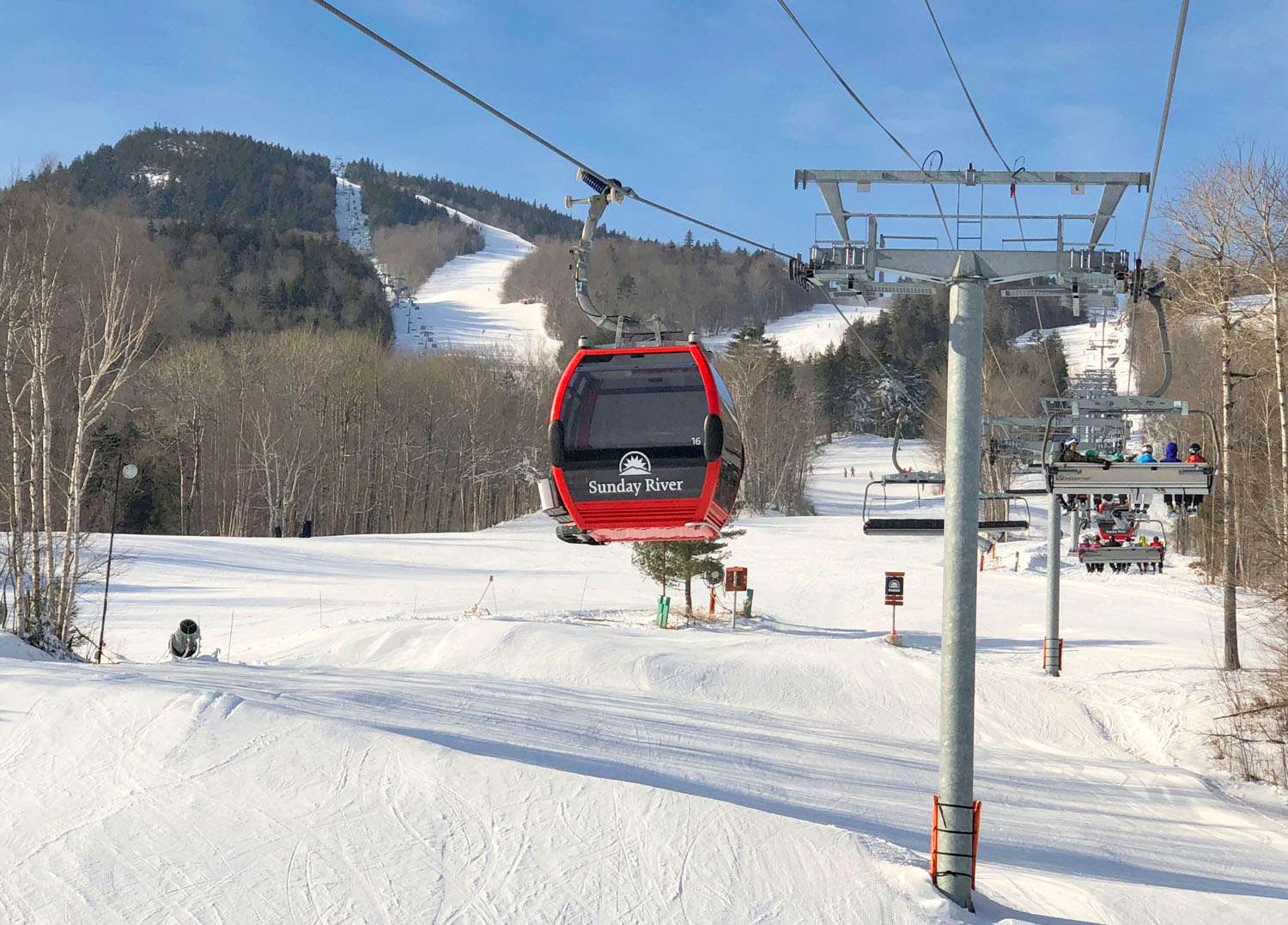 Sunday River Chondola